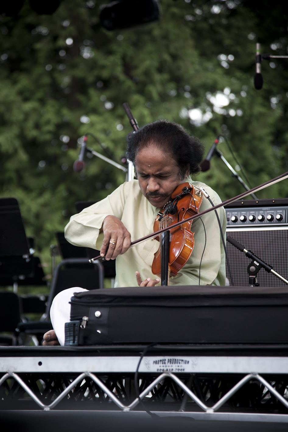 Images from Summer Life at Brockton Point, Stanley Park Image by Christine McAvoy